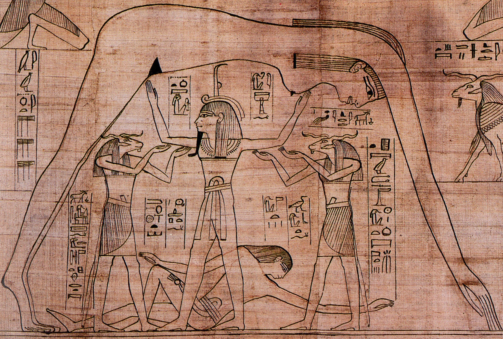 Detail from the Greenfield Papyrus (the Book of the Dead of Nesitanebtashru). It depicts the air god Shu, assisted by the ram-headed Heh deities, supporting the sky goddess Nut as the earth god Geb reclines beneath.